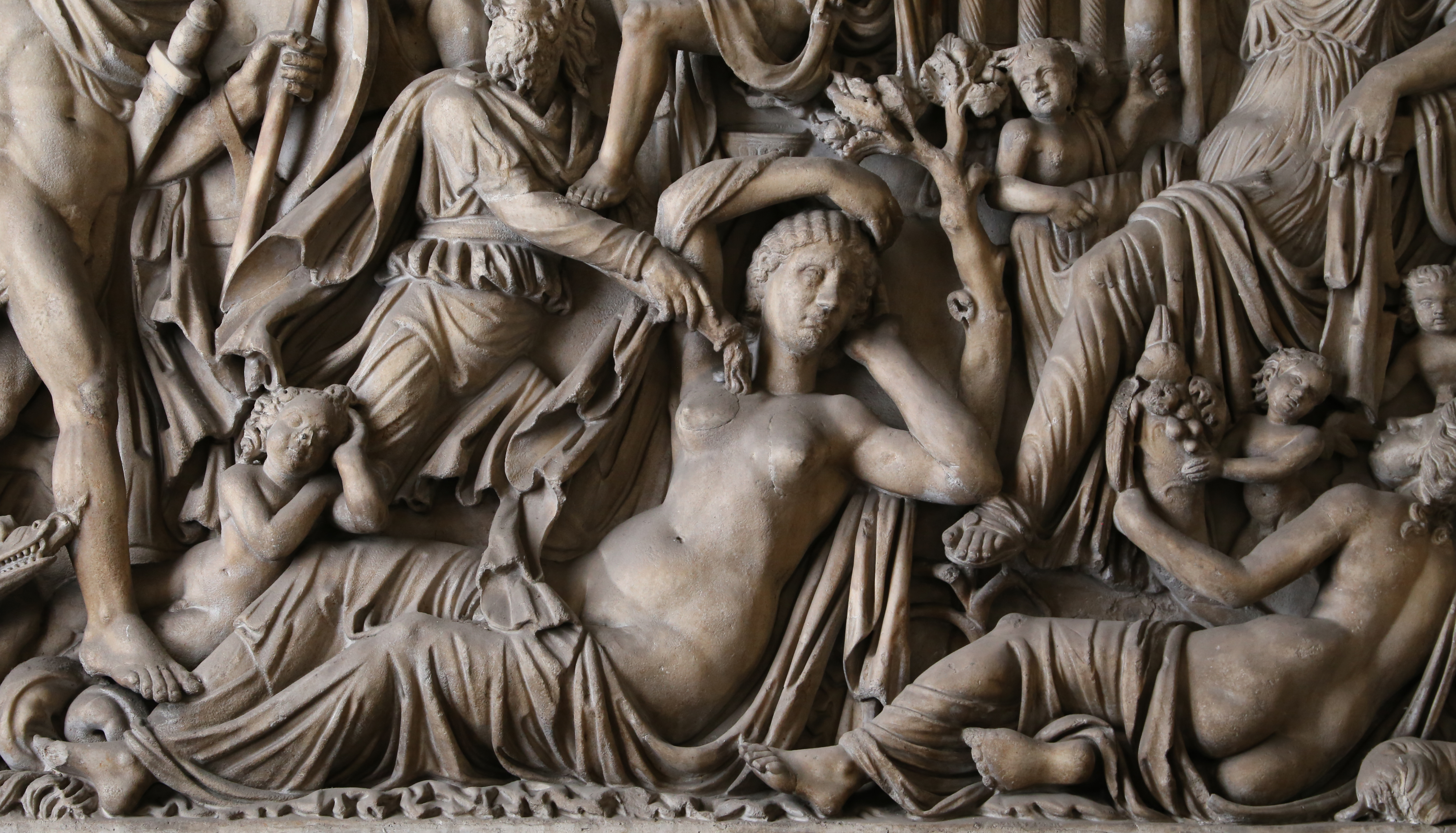 Sarcophagus of Mars and Rhea Silvia (Mattei I and II)